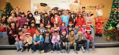 Children from remote communities in Taiwan at a Christmas event organized by the Taiwan High Speed Rail Corporation in 2011